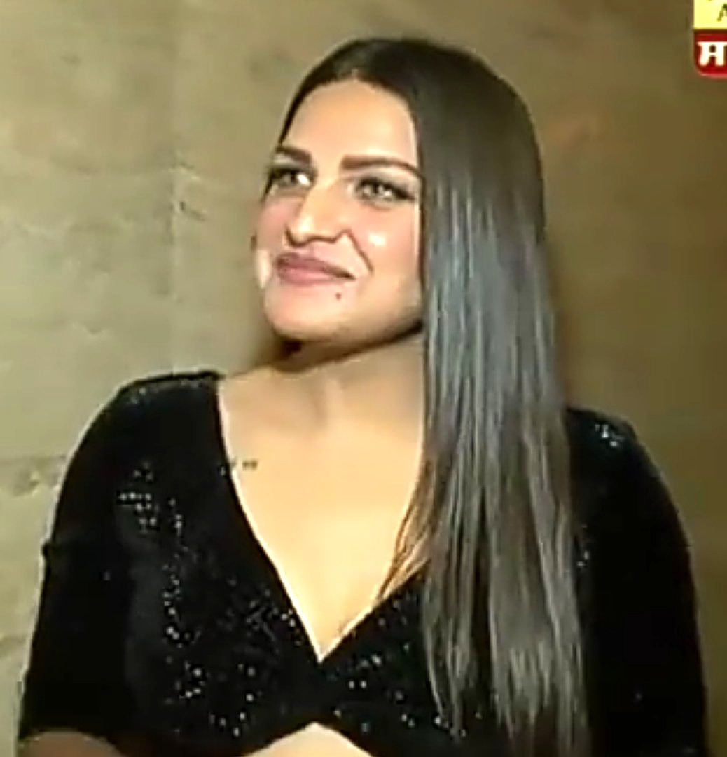 Himanshi Khurana